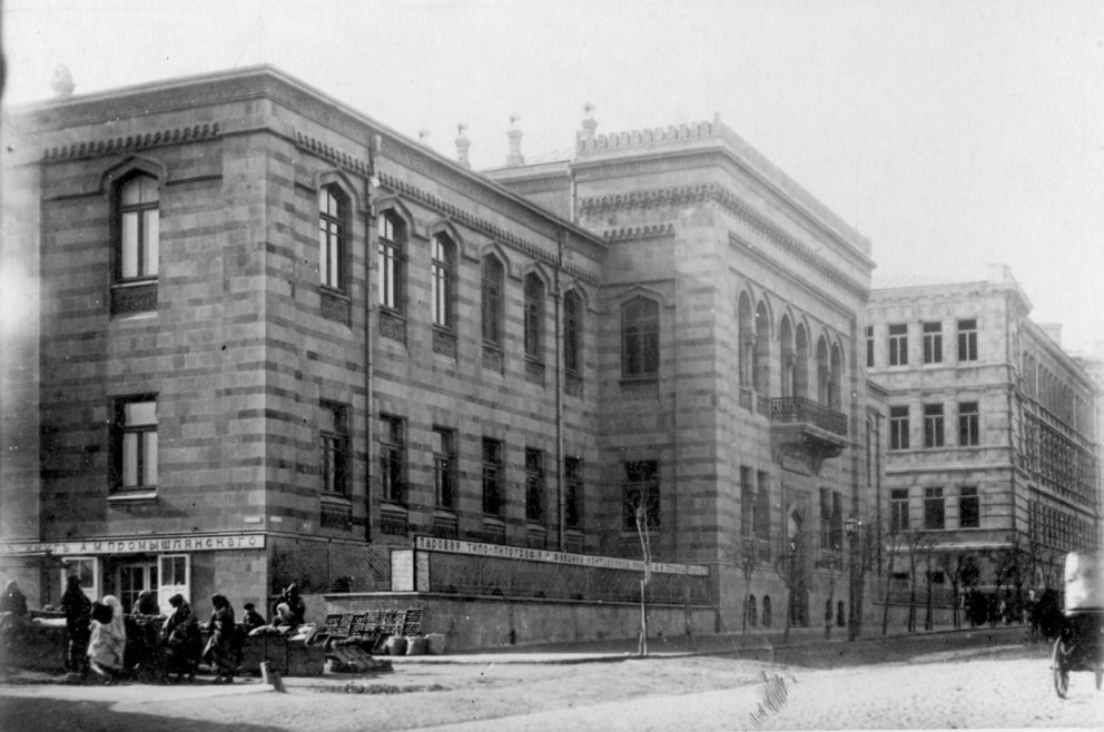 Building of the first muslim girls school in Baku